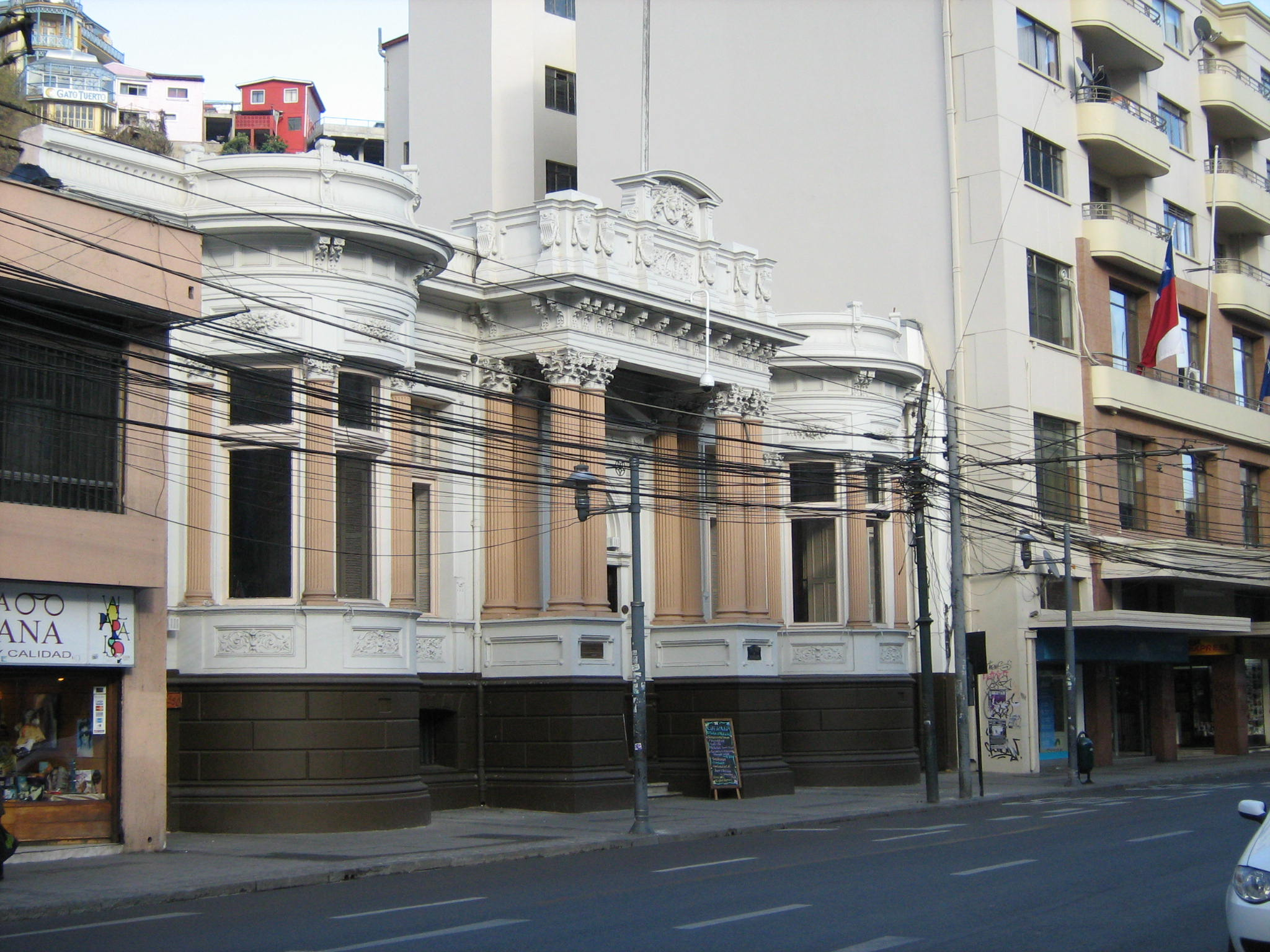 Palacio Lyon